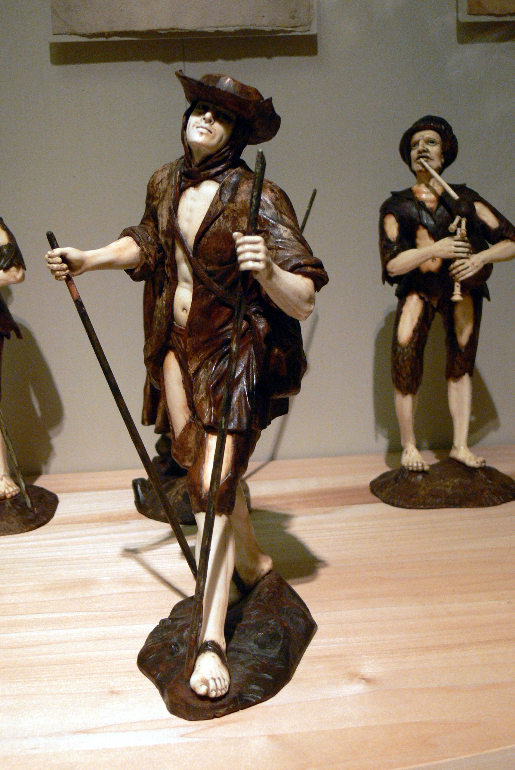 German Historical Museum ( Berlin ). Statues of beggars by Simon Troger, southern Germany ( 1750s